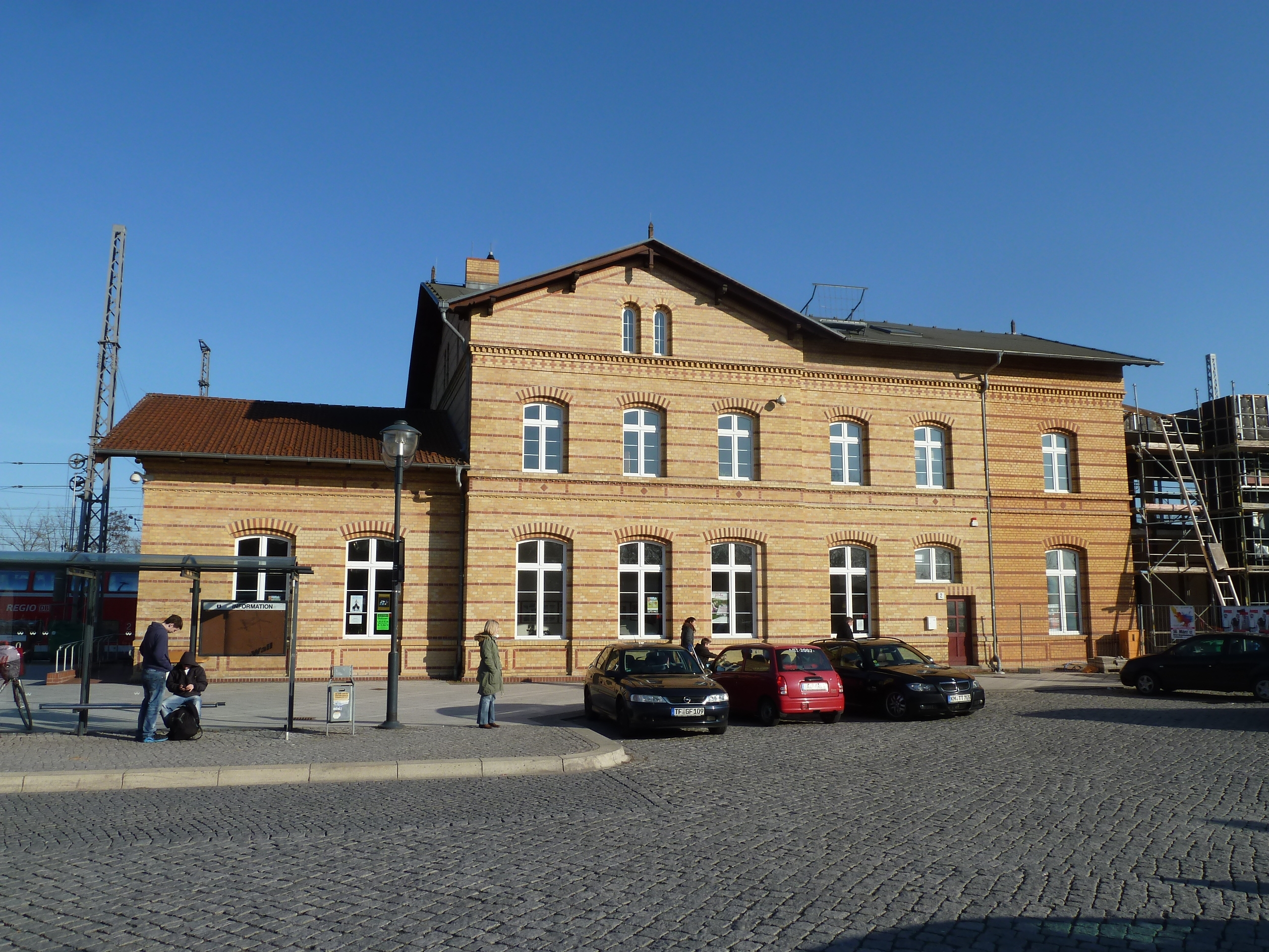 Ludwigsfelde train station building, cultural heritage